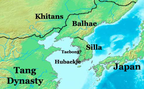 Crop of File:Asia 900ad.jpg, focusing on the border between the Khitans, Bohai, and Silla